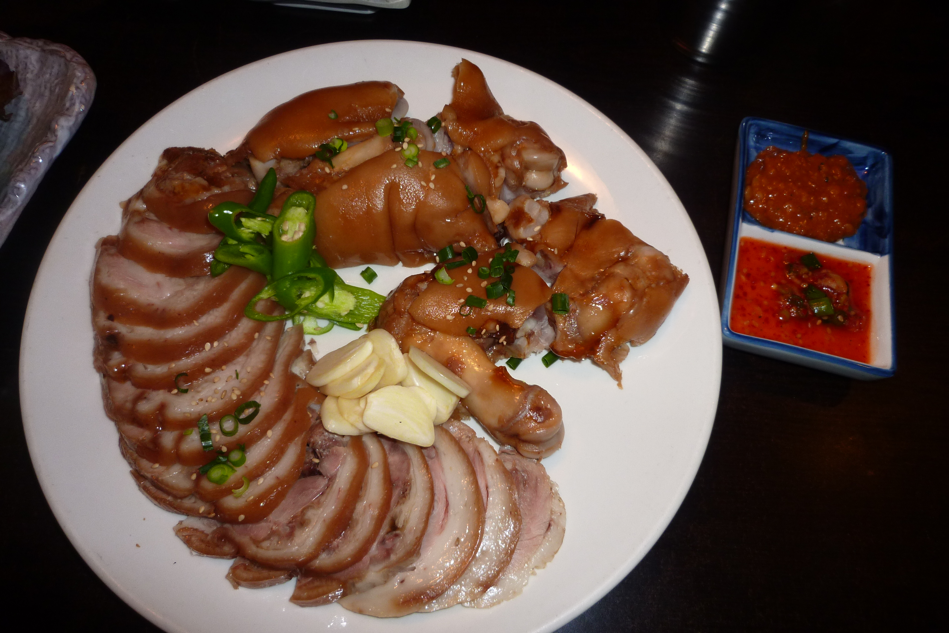 Sliced jokbal (족발) on a plate, with a dish of sauces on the right.